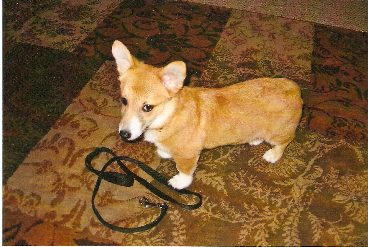 Picture of a young dorgi named Bailey at 6 months of age.